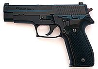 Police Handgun